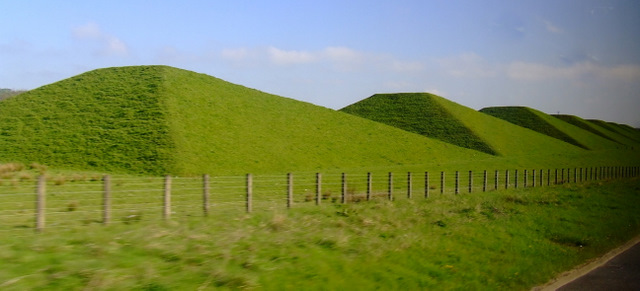 The Pyramids